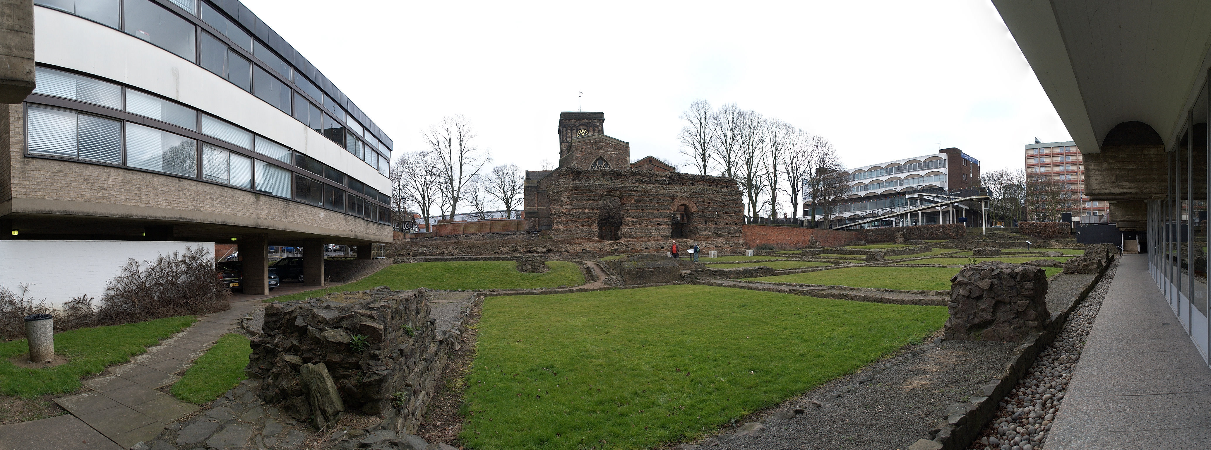 Panoramic view of the Jewry Wall ruins in Leicester, also showing Vaughan College.